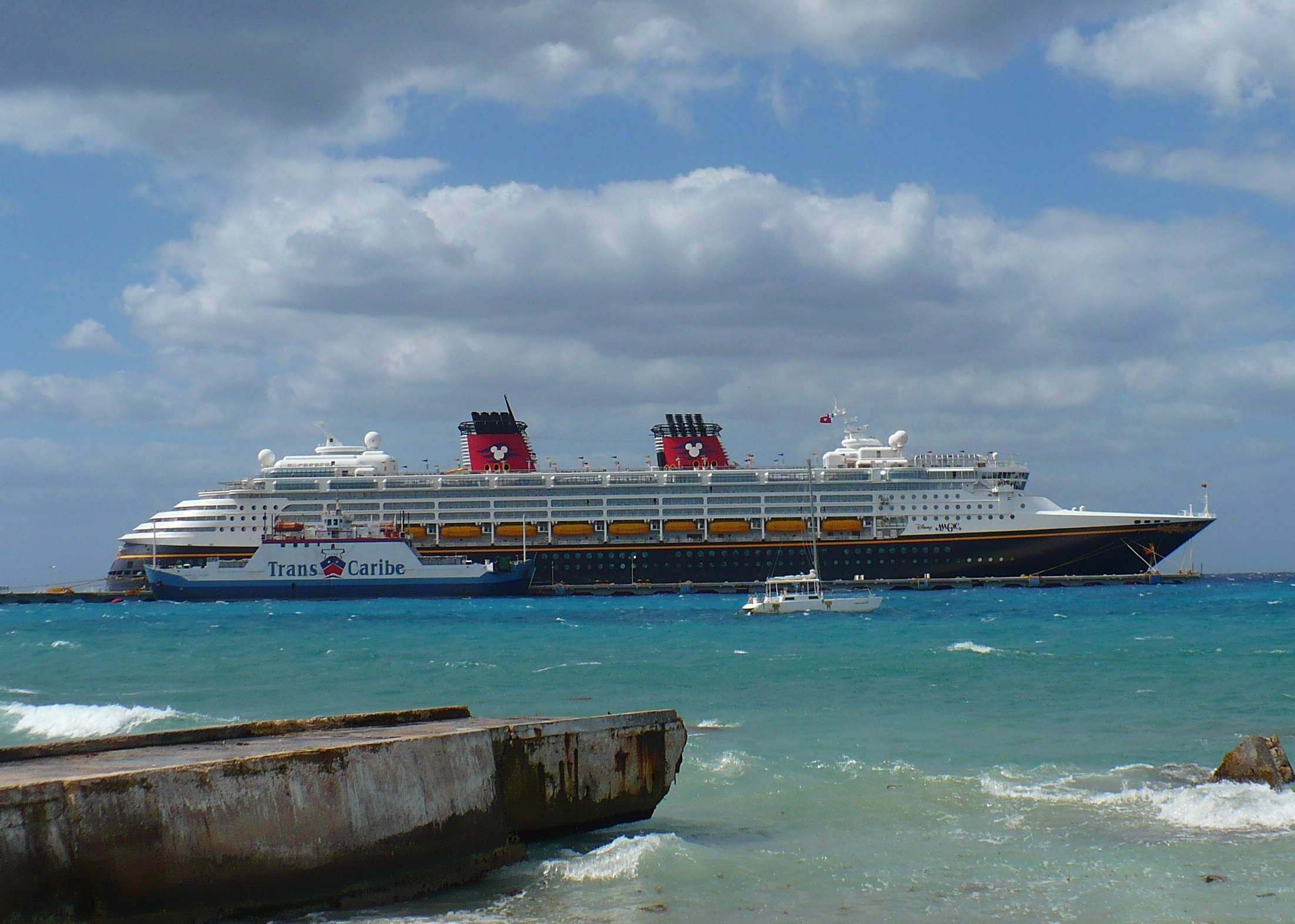 View of the Disney Magic. Taken at Cozumel, Yucatan.